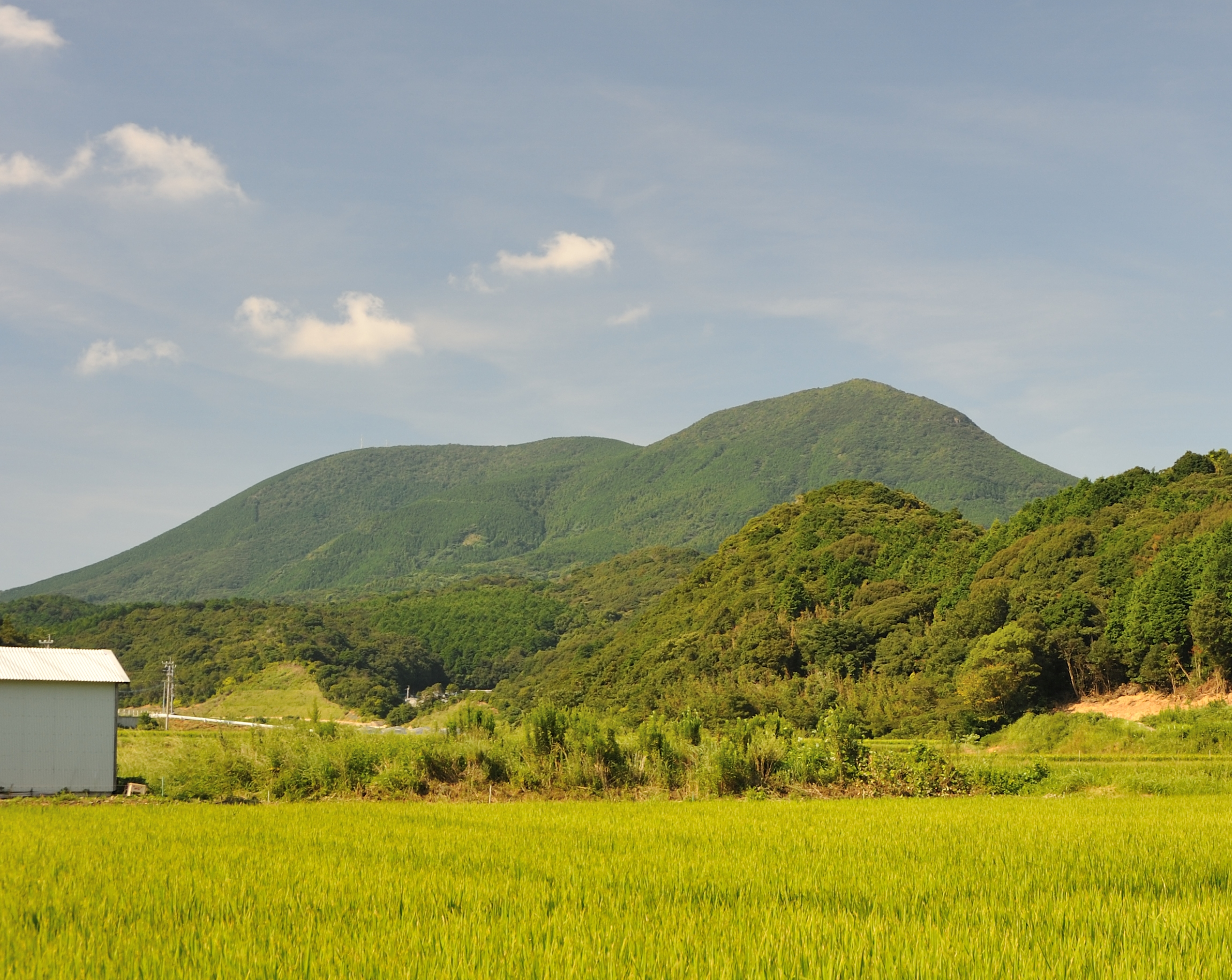 Mount Yasuman (Yasumandake) seen from the south, in Hirado City, Nagasaki Prefecture, Japan